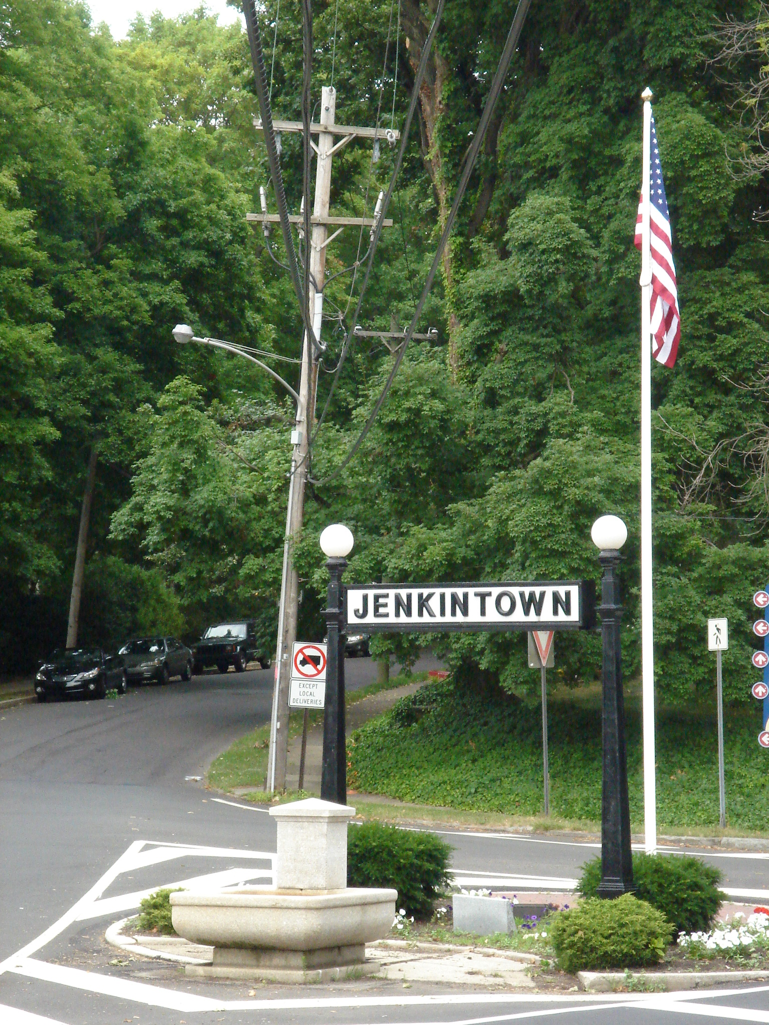 Town sign in Jenkintown, PA, USA